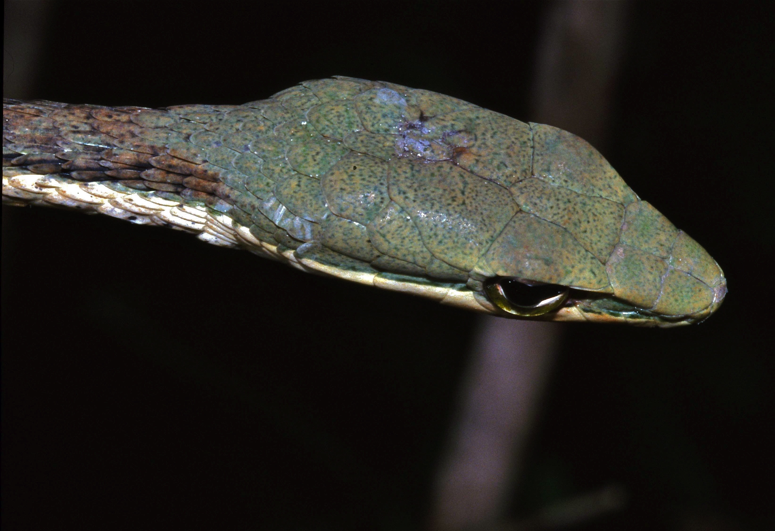 Snake Park, Watamu, KENYA Scanned Slide from 2002